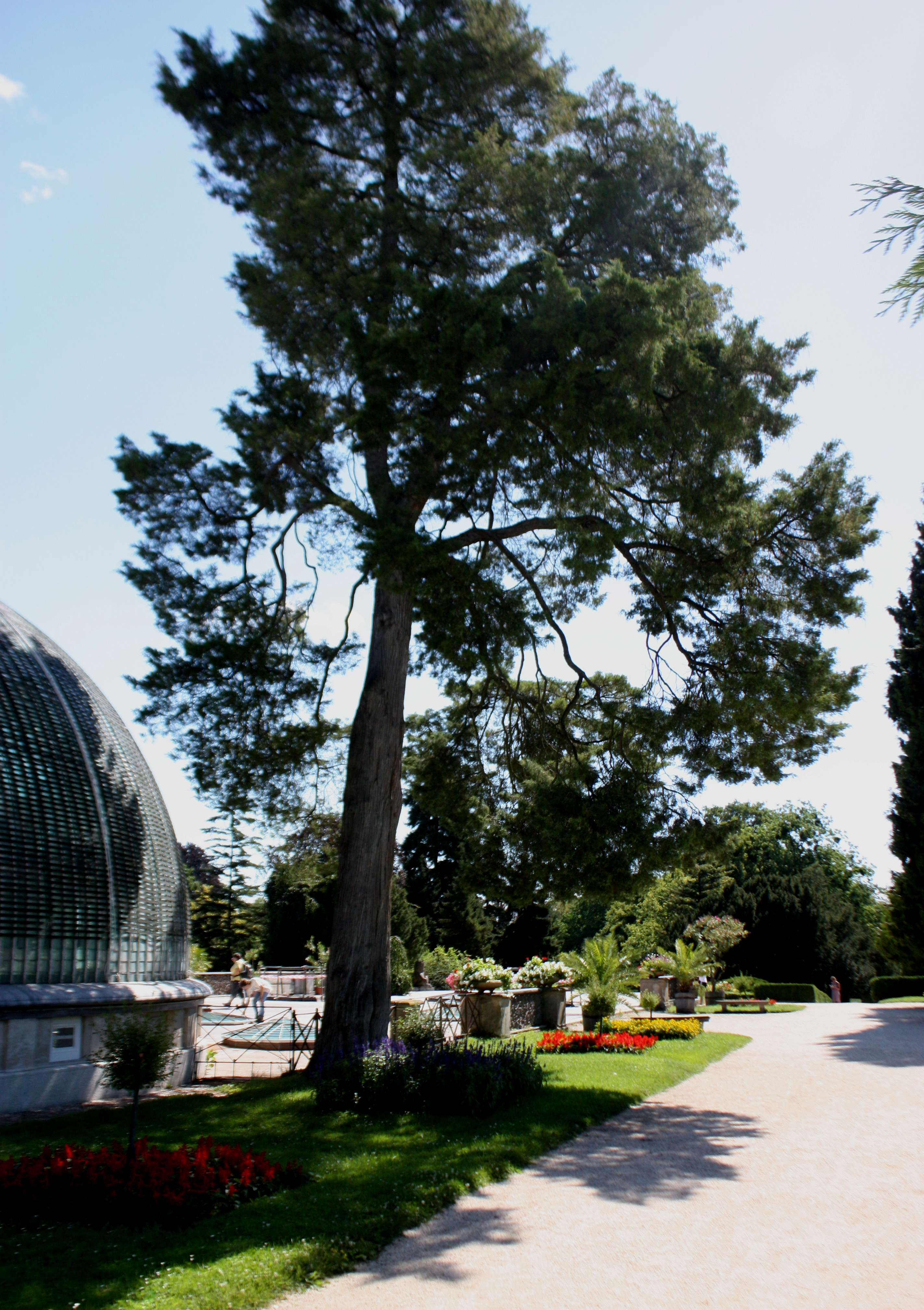 Lednice na Moravě, Czech republic, english park